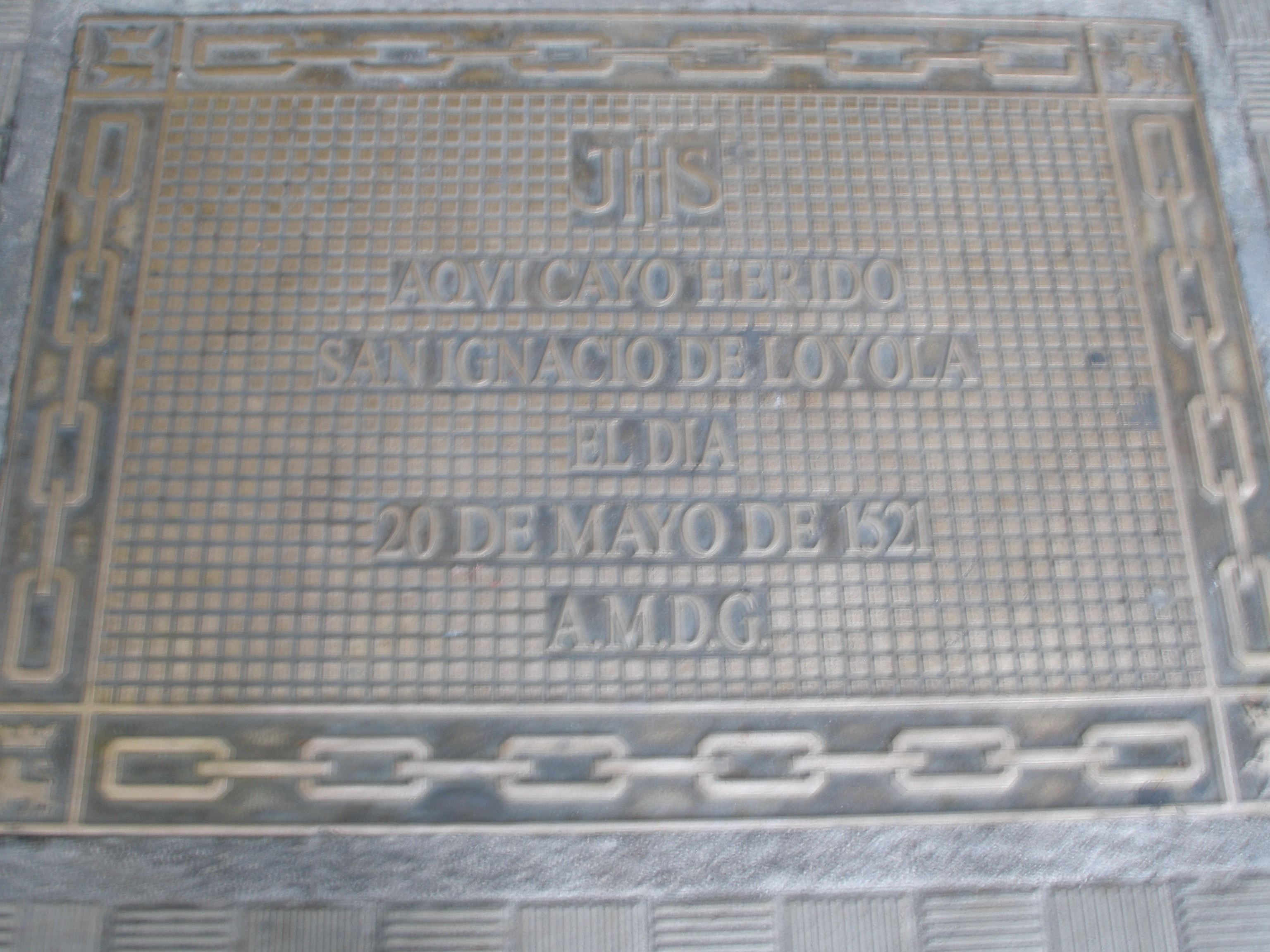 San Ignacio's placard on the street of Pamplona